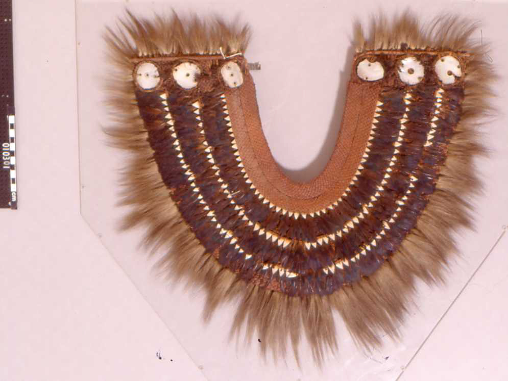 H000145 Breast ornament of plaited coconut fibre, decorated with pidgeon feathers, shark's teeth and pearlshell discs and fringed with dog's hair. Collected from the Society Islands during Cook's voyages to the Pacific, 1768-1780.